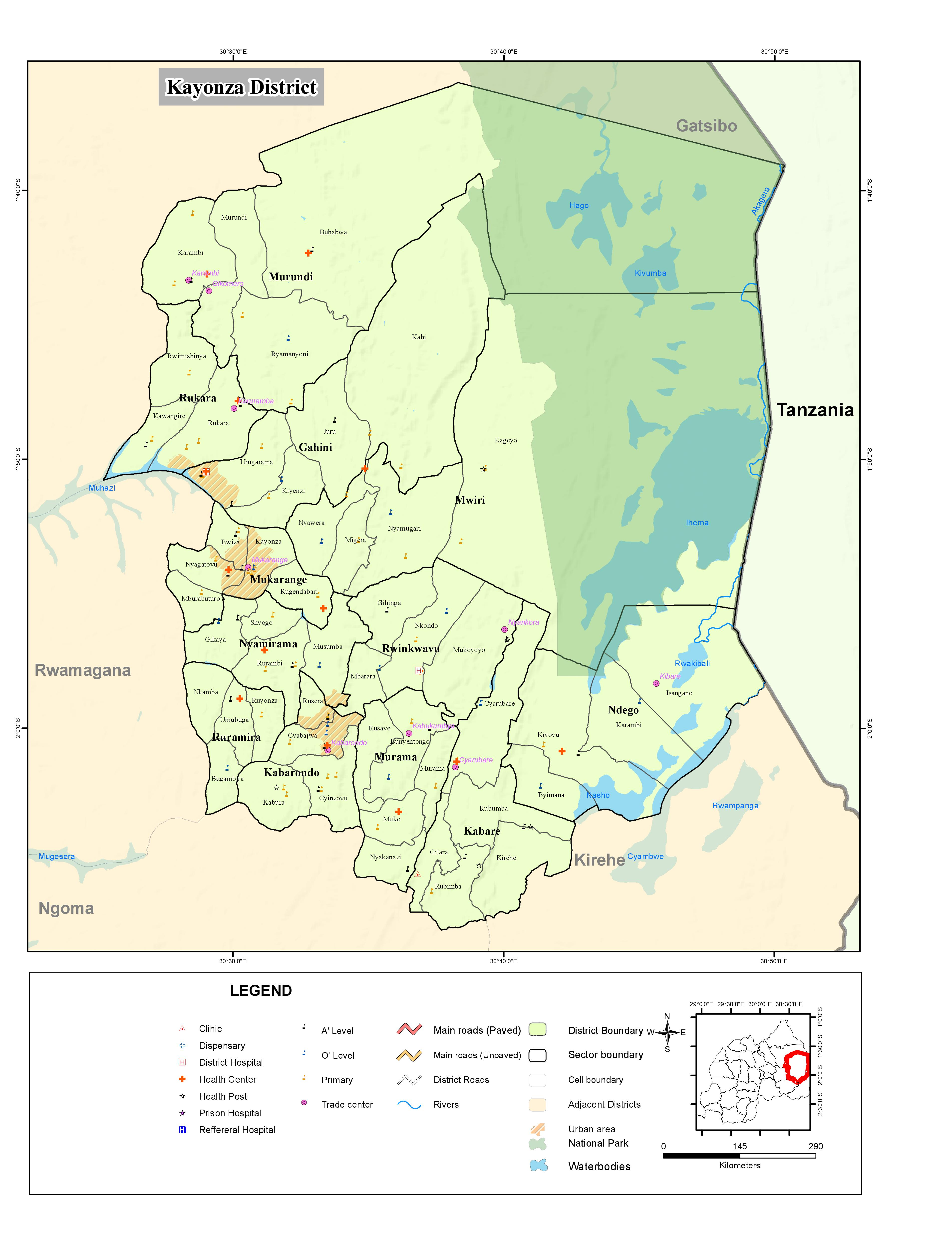 Map of Kayonza district Rwanda